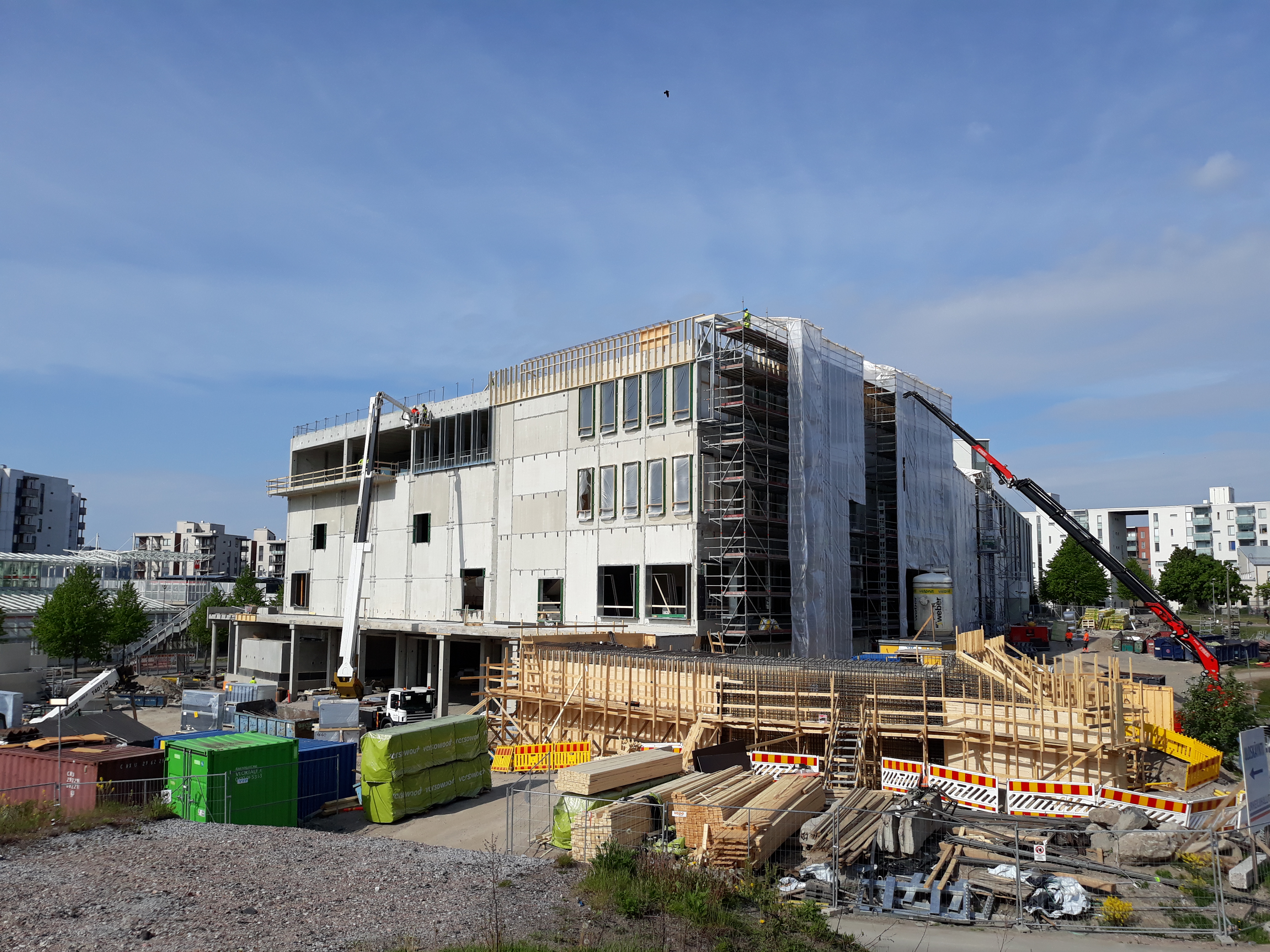 Vuosaari Upper Secondary School's new building under construction.